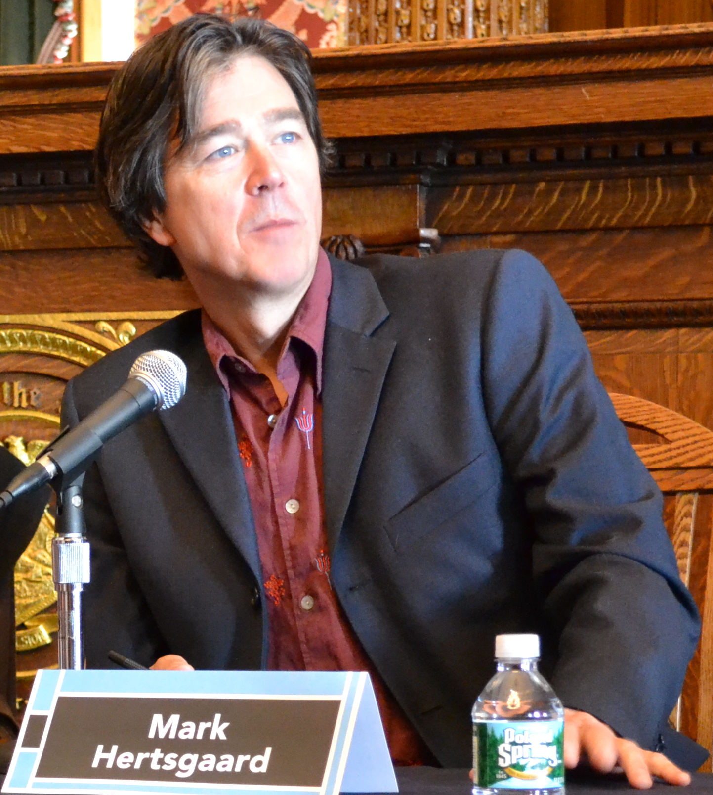 Extreme Weather, Scare Resources and Climate Change Brooklyn Book Festival